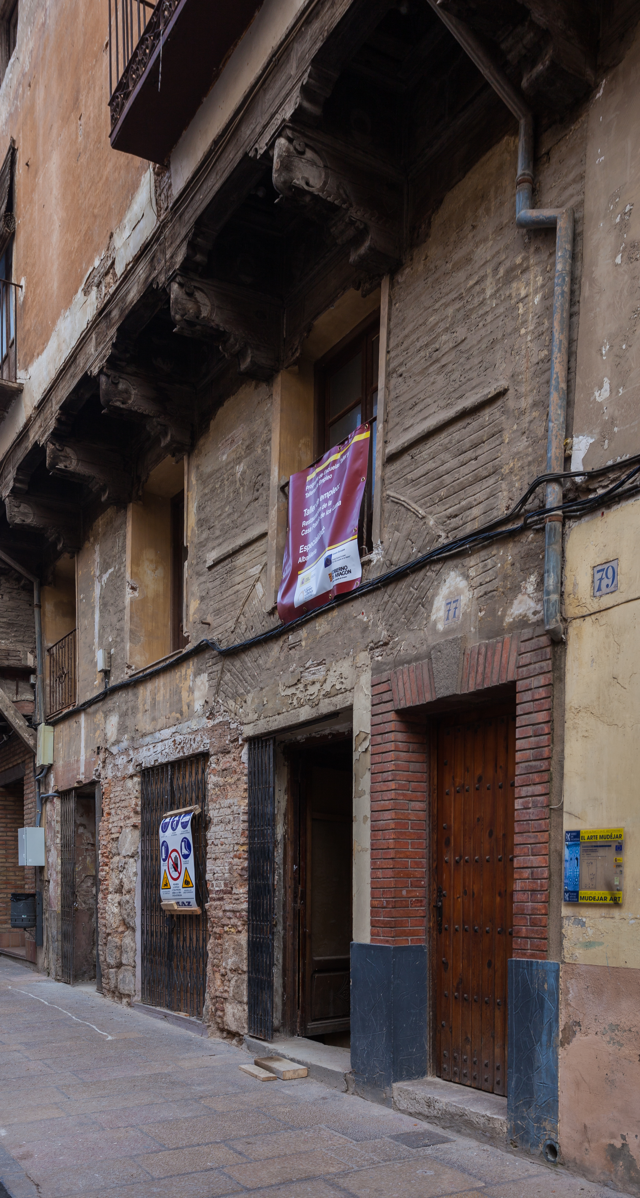 Palace House of Los Luna, Daroca, Zaragoza, Spain